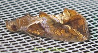 Plusiodonta excavata (Guenée, 1862)